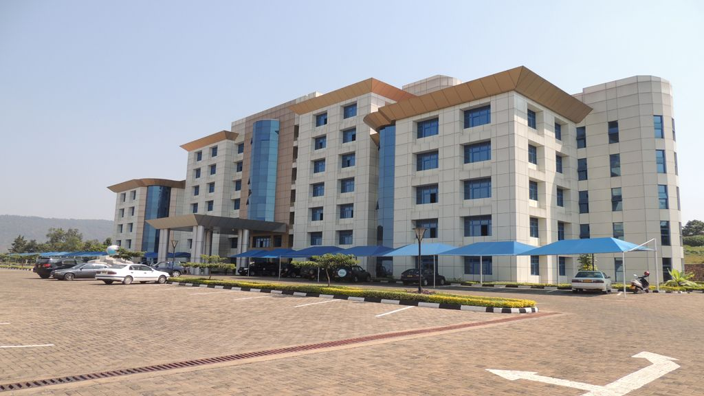 ULK Main Administration building